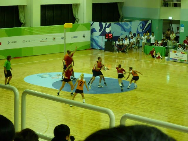 Korfball Gold Medal Match, between Belgium and the Netherlands.The World Games 2009 Kaohsiung